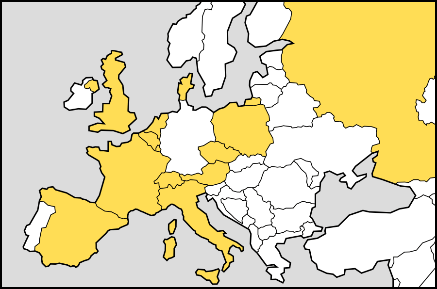 The thirteen countries that are described in the book series "Die Deutschen und ihre Nachbarn" ("The Germans and their neighbors")(highlighted in yellow).